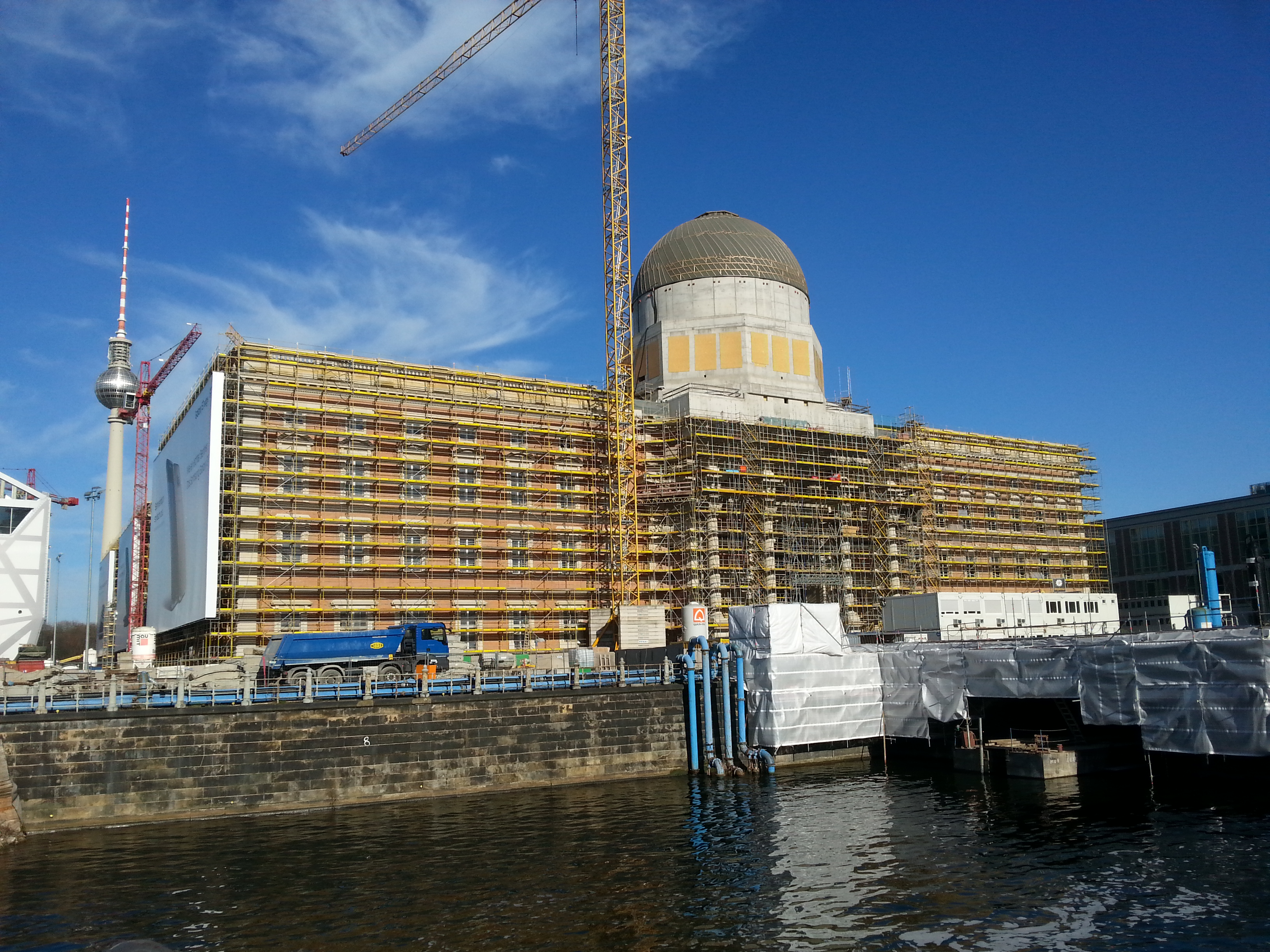 West facade of the new Berlin City Palace